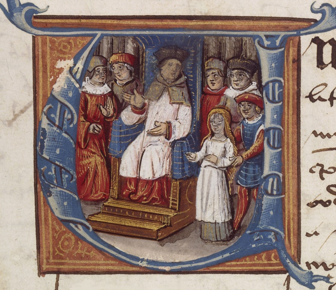 Manuscript portrait of Bishop Pierre Cauchon, the chief official at Joan of Arc's trial and condemnation.